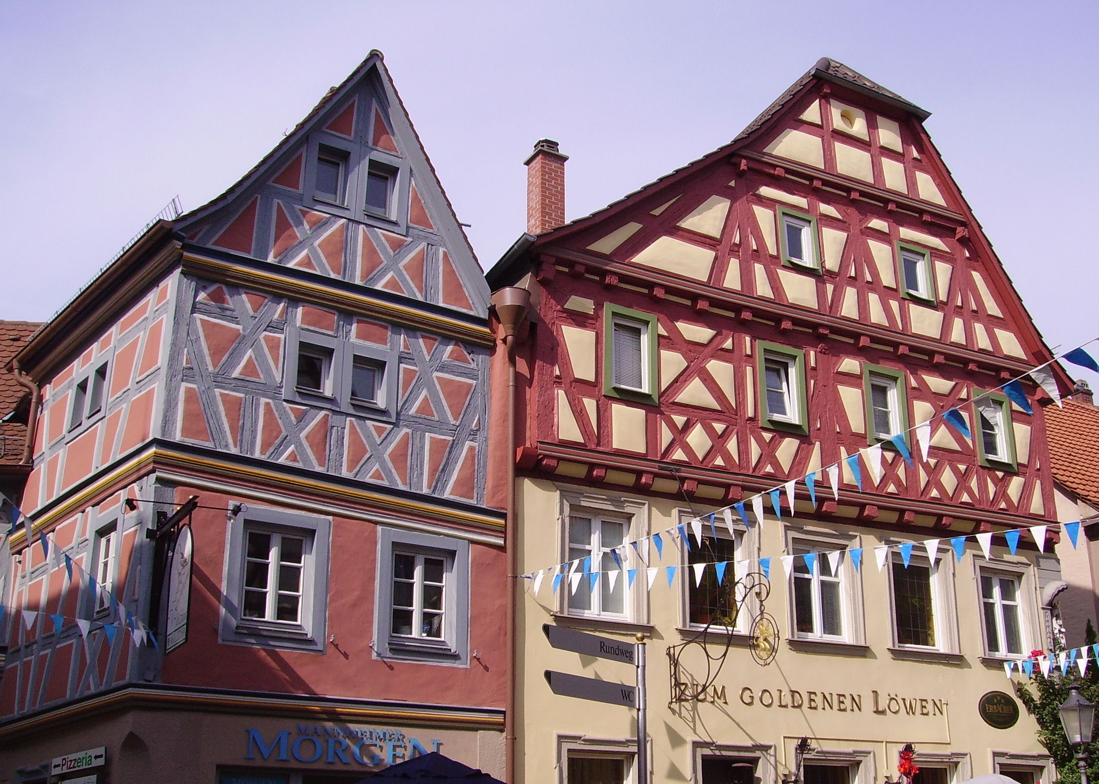 Hauptstraße 25, historic town of Ladenburg near Heidelberg, Germany